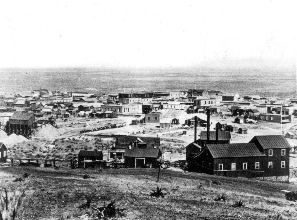 Tombstone, Arizona in 1881 photographed by C. S. Fly. An ore wagon at the center of the image is pulled by 15 or 16 mules leaving town for one of the mines or on the way to a mill. The town had a population of about 4,000 that year with 600 dwellings and two church buildings. There were 650 men working in the nearby mines. The Tough Nut hoisting works are in the right foreground. The firehouse is behind the ore wagons, with the Russ House hotel just to the left of it. The dark, tall building above the Russ House is the Grand Hotel, and the top of Schieffelin Hall (1881) is visible to the right.